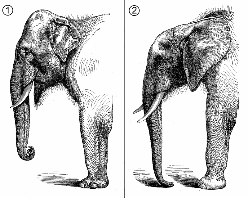 Comparative anatomy of head and forepart of the body of the Asian Elephant (Elephas maximus, 1) and the African Elephant (Loxodonta africana, 2).